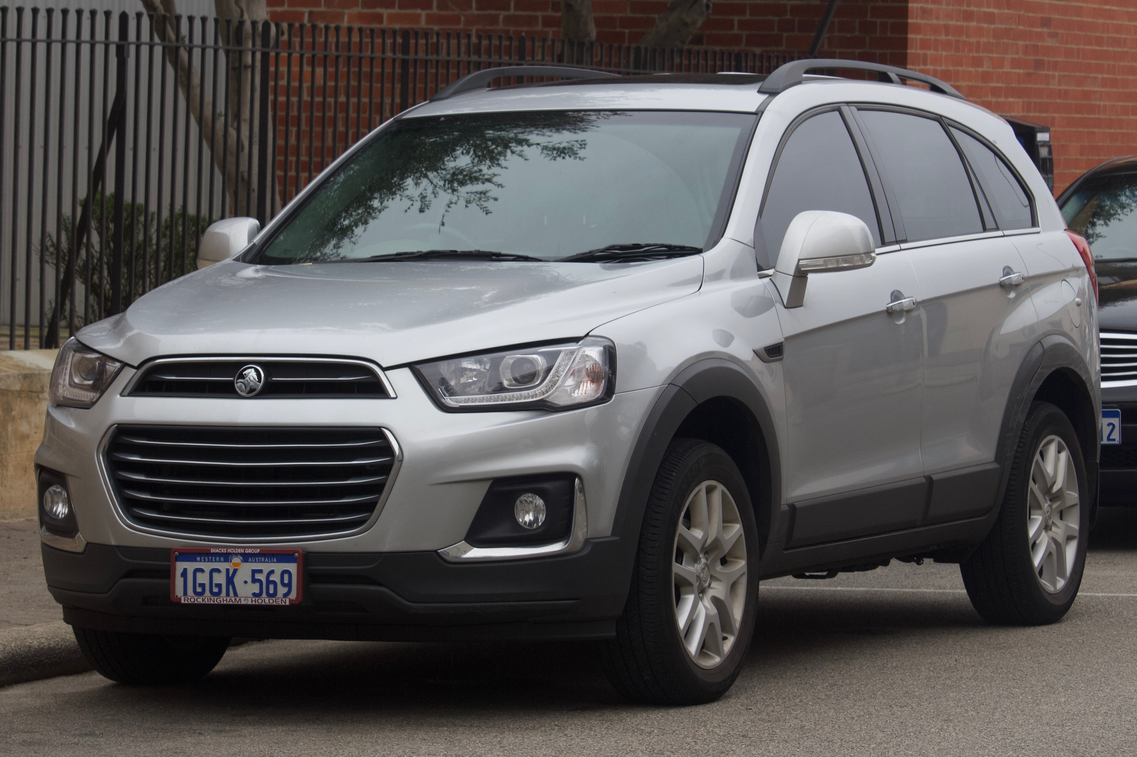 2017 Holden Captiva (CG MY17) Active 2WD wagon. Photographed in Fremantle, Western Australia, Australia.